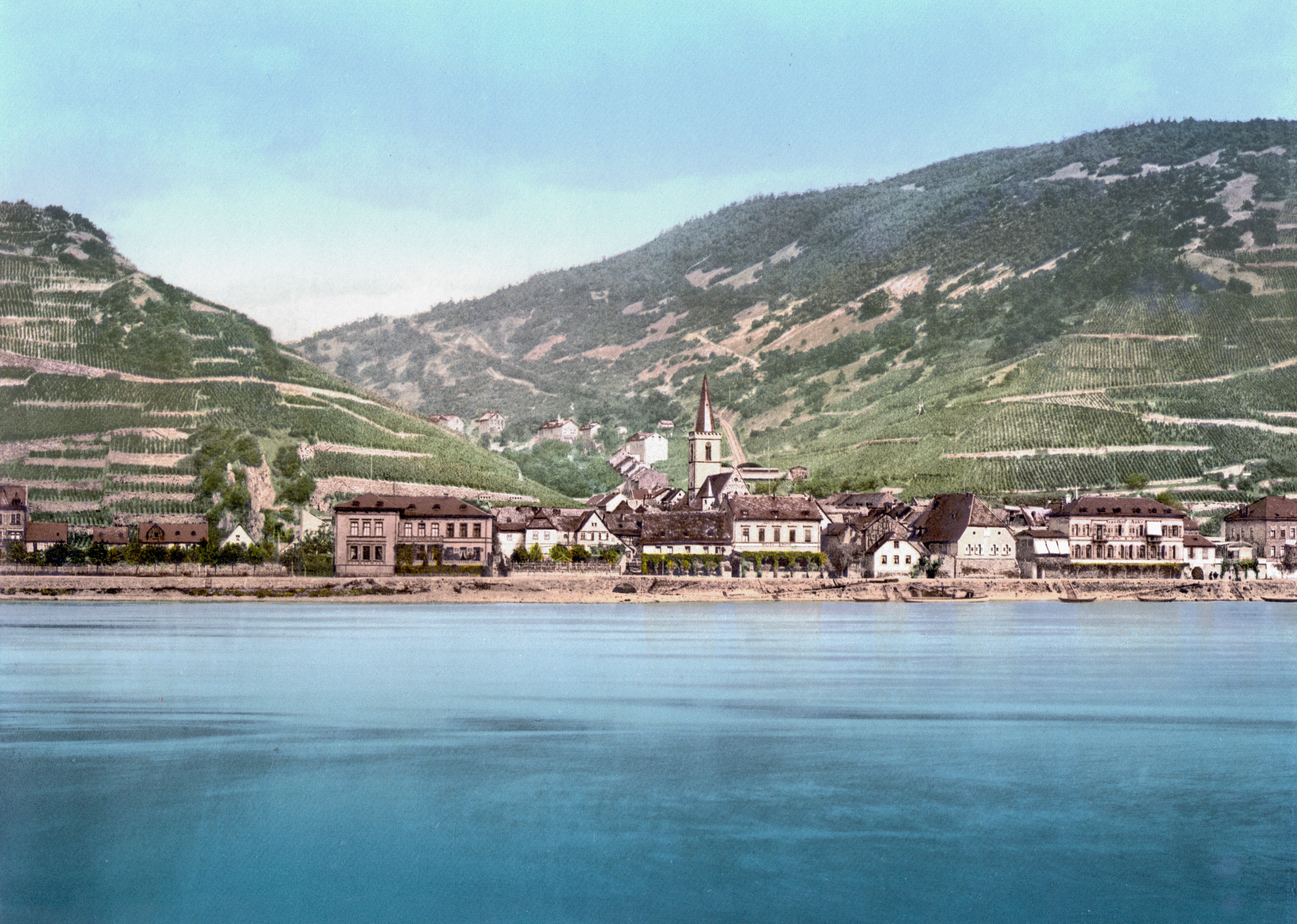 Assmannshausen, Rheingau, Germany (about 1900)